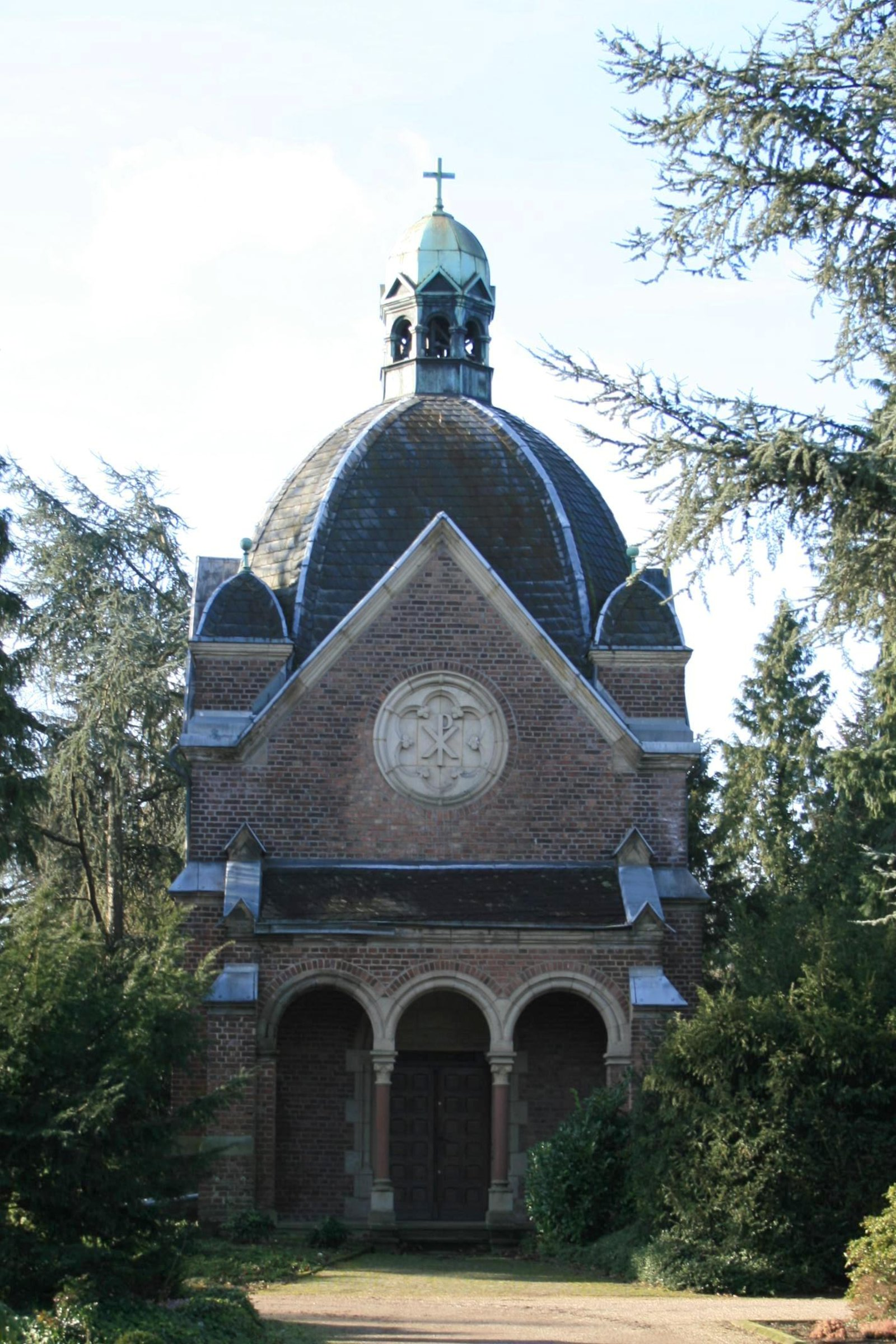 This is a photograph of an architectural monument.